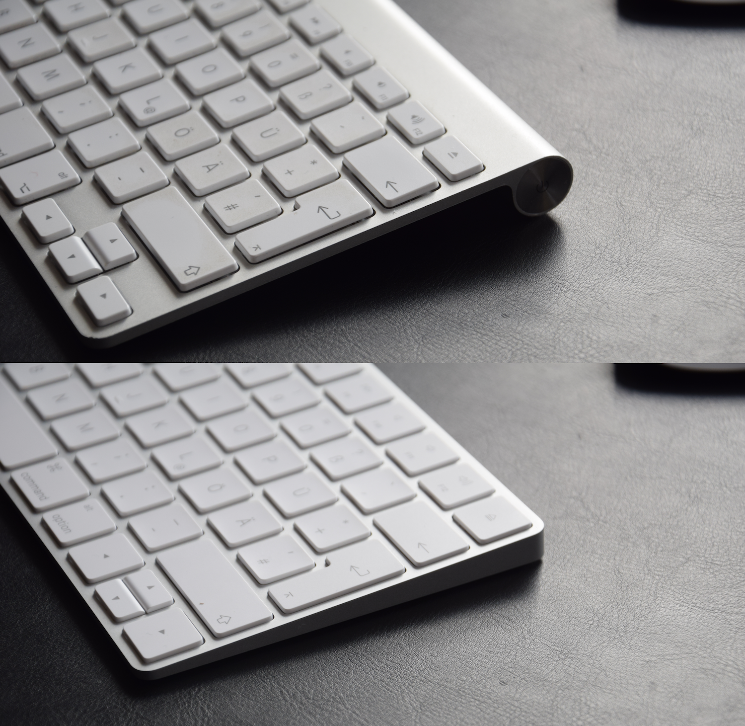 Apple Wireless Keyboards of 2nd (above) and 3rd generation (below) seen from right view